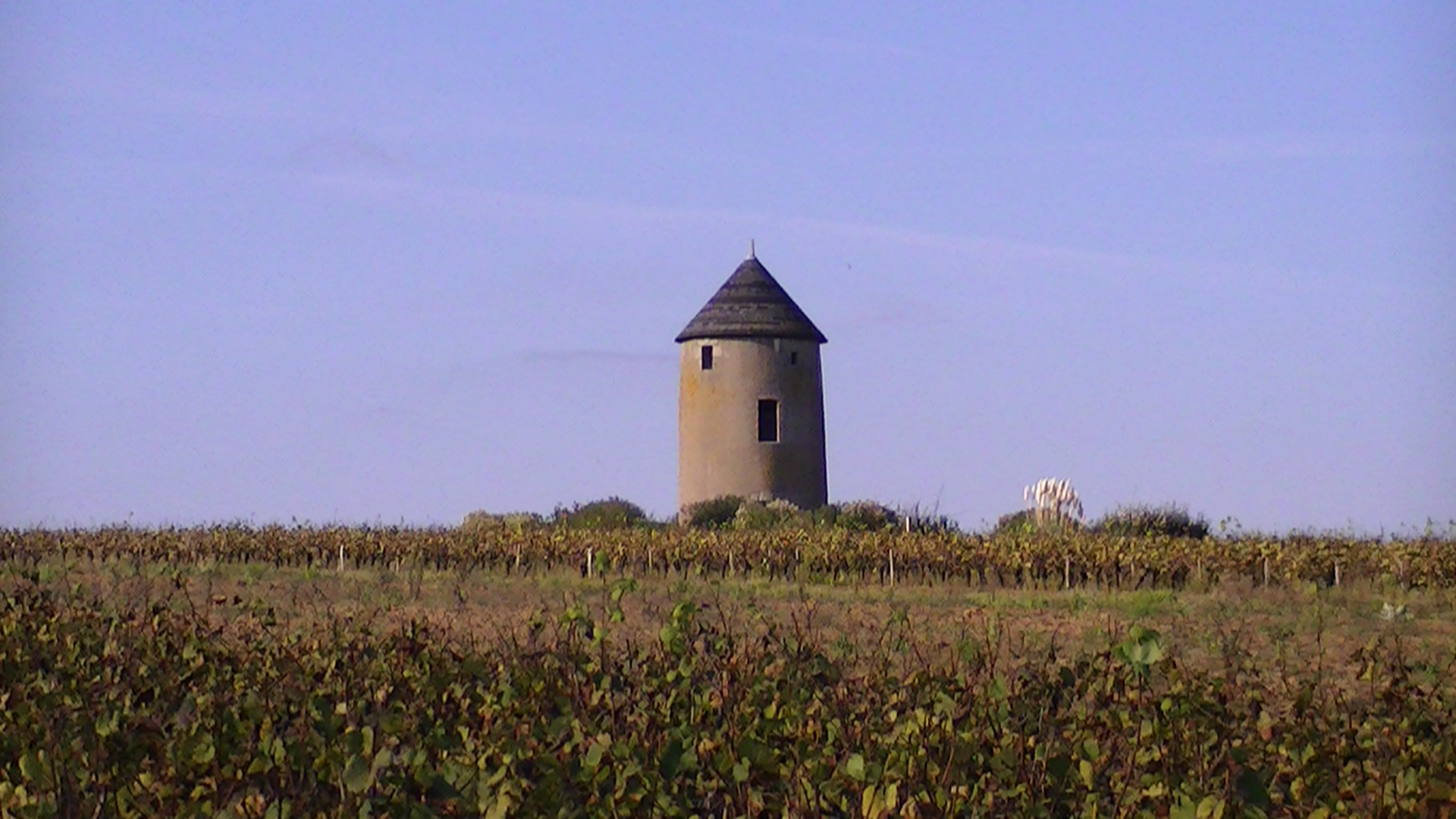 Windmill in La Minière, Monnières, Loire-Atlantique, France.